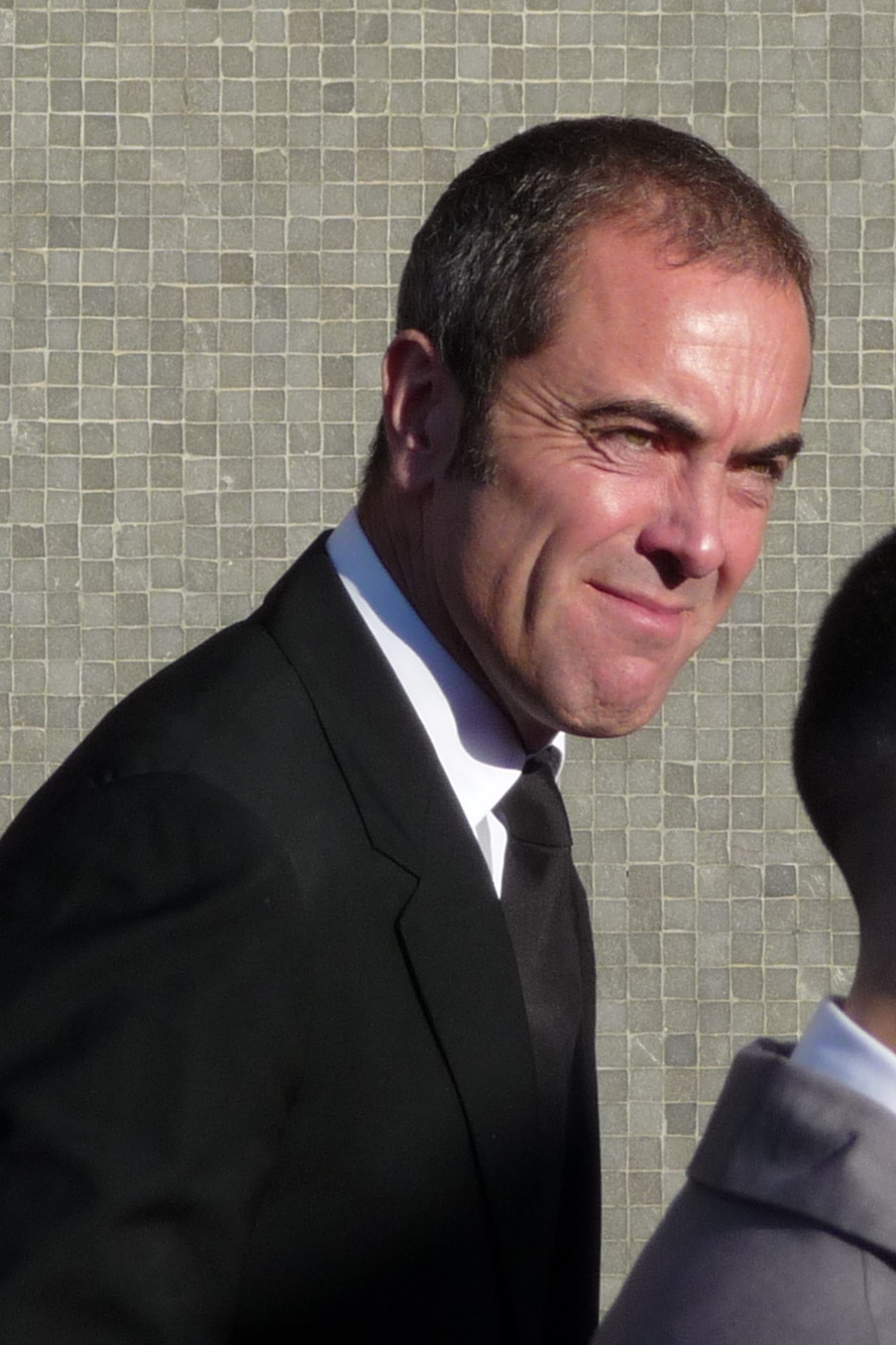 James Nesbitt at the 2009 BAFTAs